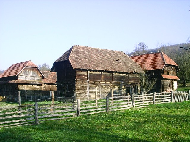 Folk architecture in the Kordun area, Croatia TF2-A0A3